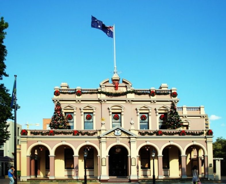 Parramatta, Town Hall, decorated in Christmas colours